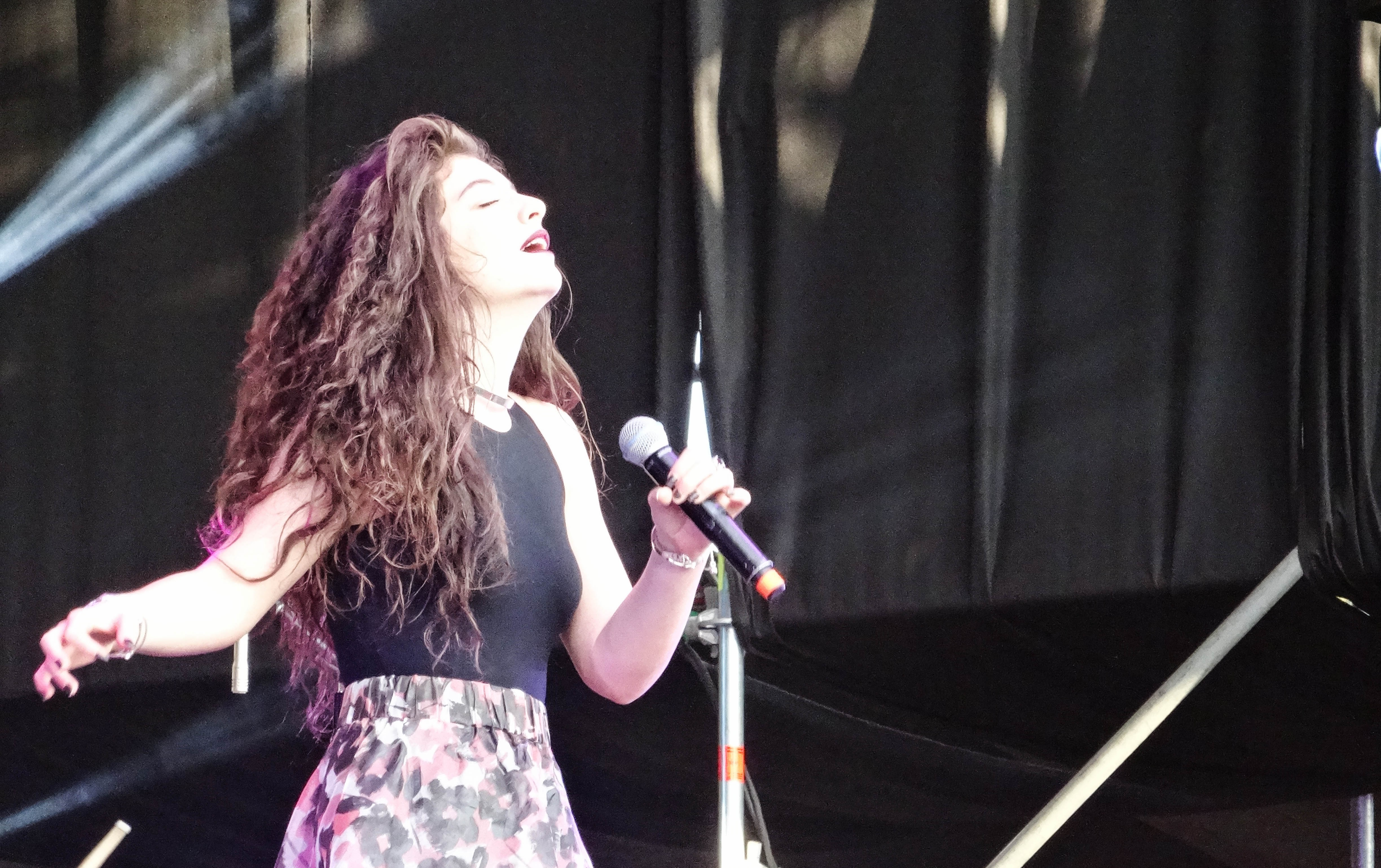 Lorde performing at Lollapalooza Chile in March 2014